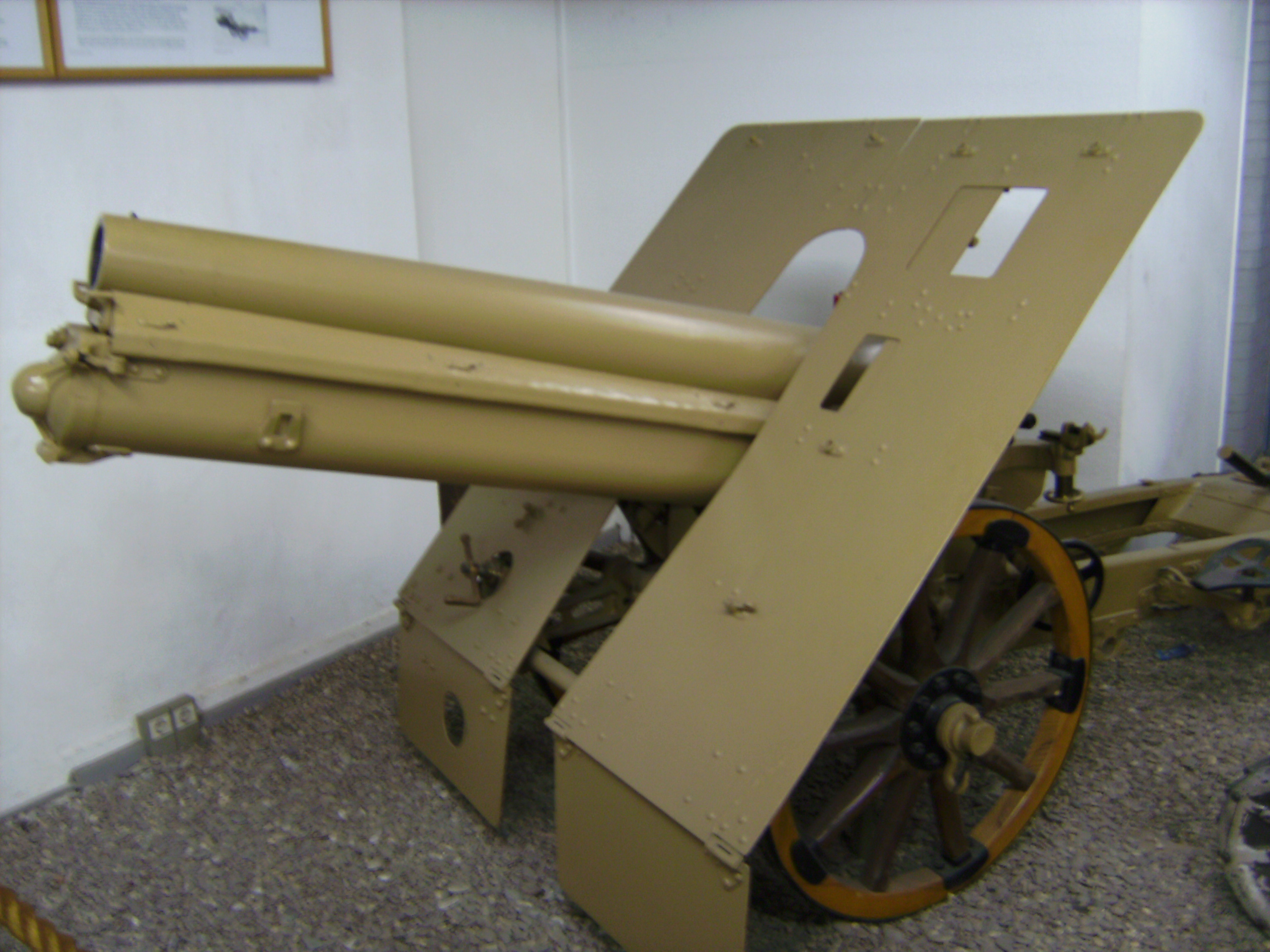 100 mm Skoda Mountain Howitzer in the German Army Technical Museum in Koblenz (Germany) See Skoda 100 mm Model 16/19